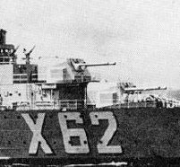 The Volta (Mogador class destroyer), ONI203 booklet for identification of ships of the French Navy, published by the Division of Naval Inteligence of the Navy Department of the United States (9 November 1942). Photo date 1939-1940